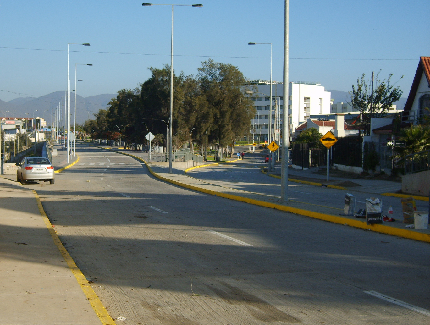 View of Videla Avenue in Coquimbo, Chile. Photo taken 1 day before the official opening.